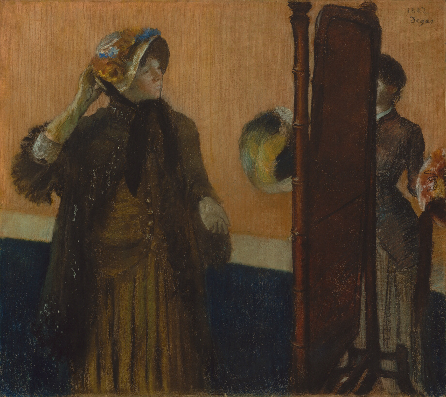 At the milliners